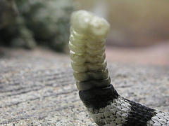 Photograph of the rattle of a rattlesnake taken by Michael Parker - original.